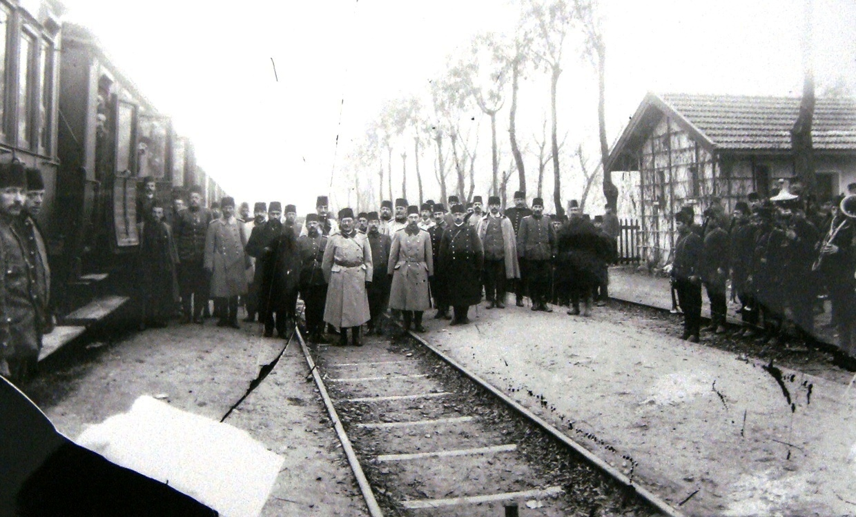 General von der Goltz Pasha, a German in service in the Turkish Army (on the right with greatcoat). Next to him is Drugut Pasha. Bitola, 1909 (broken glass plate) This media file is produced by Wikipedian in Residence in Category:Wikipedian in Residence at DARM in 2016.